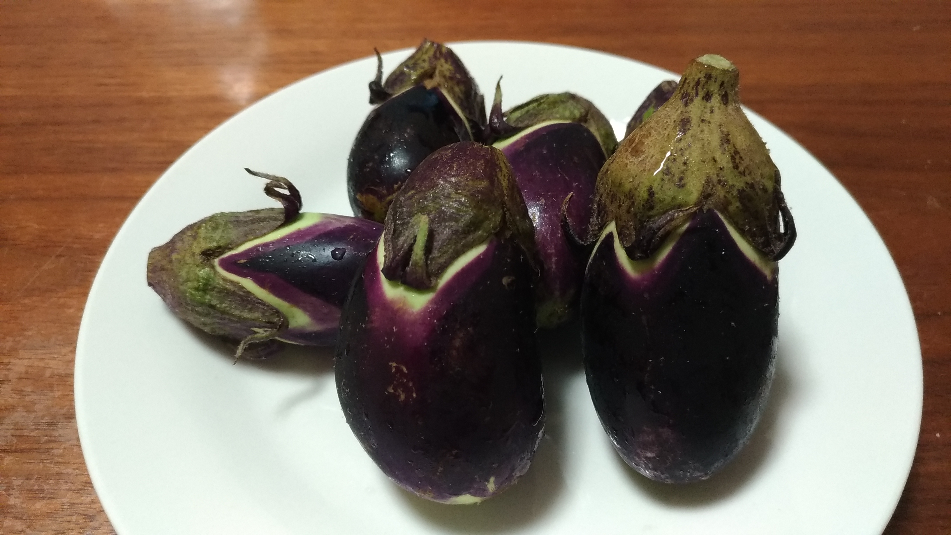 Shimoda Nasu(Eggplants) grown at Shimoda, Konan, Shiga, Japan